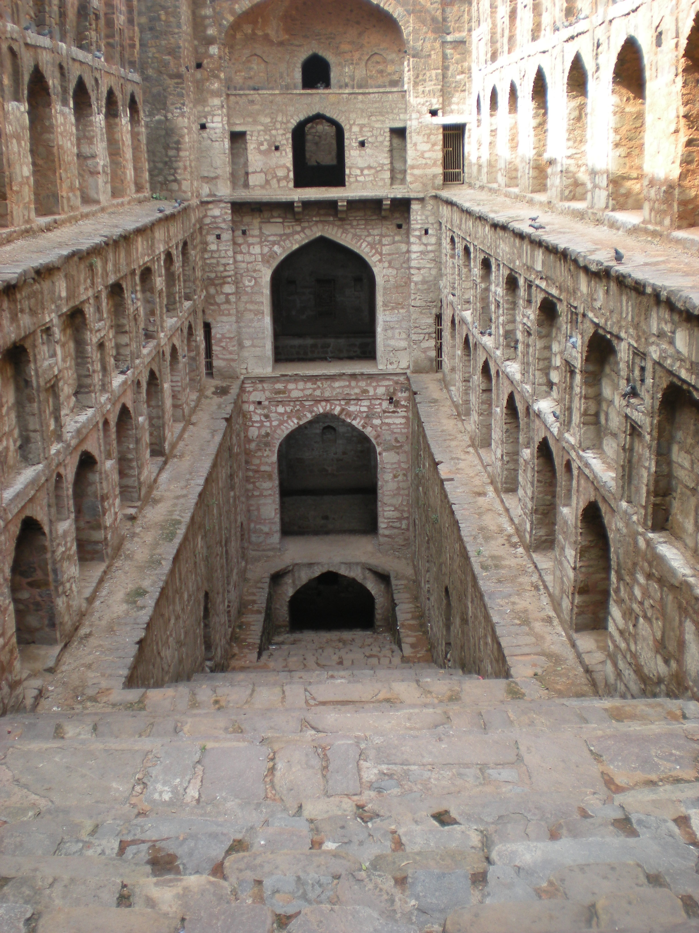 It was originally built by the legendary king Agrasen during the Mahabharat era and rebuilt in the 14th century by the Agrawal community which traces its origin to Maharaja Agrasen.